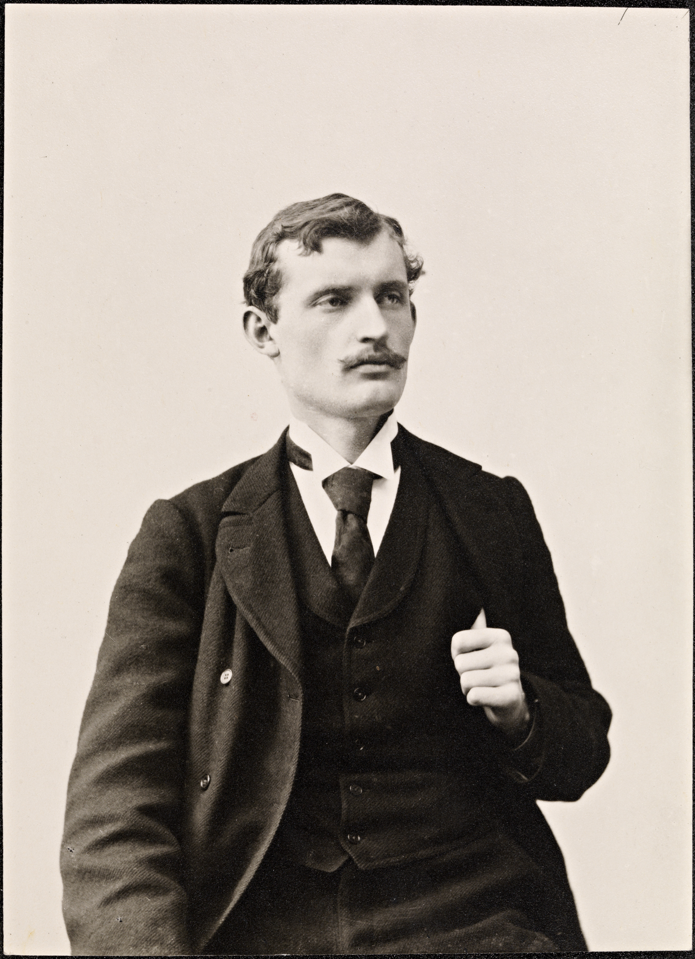 Portrait of Edvard Munch (1863-1944) c. 1889. National Library of Norway